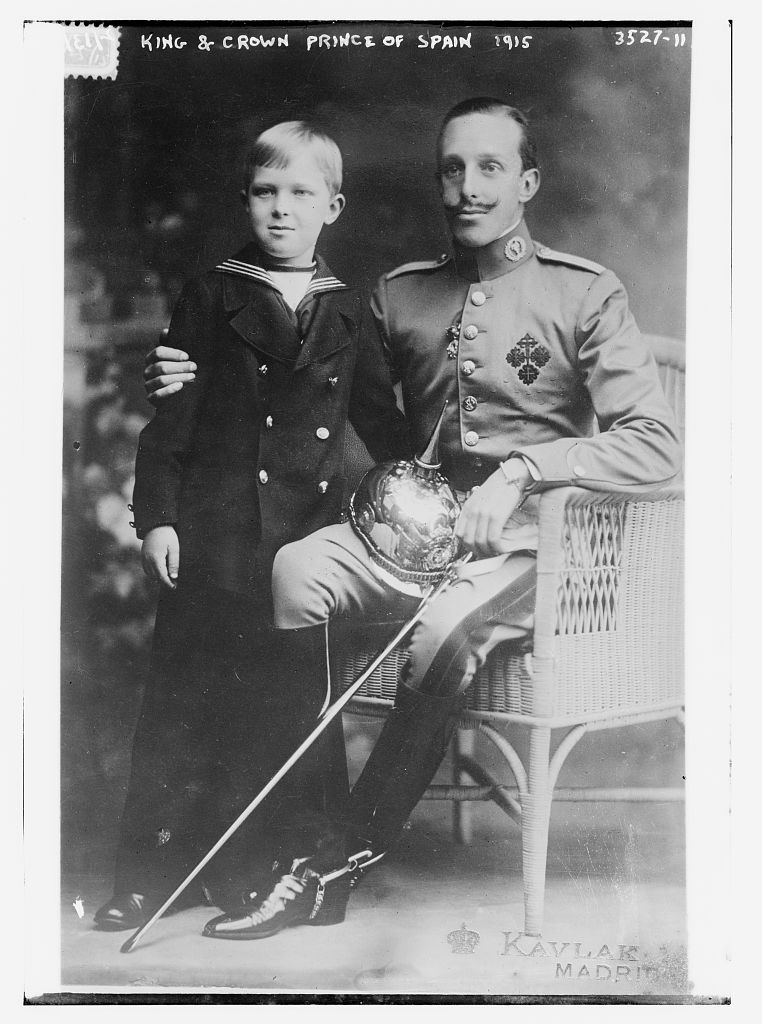 Bain News Service,, publisher. King and Crown Prince of Spain, 1915 1915. 1 negative : glass ; 5 x 7 in. or smaller. Notes: Title from unverified data provided by the Bain News Service on the negatives or caption cards. Forms part of: George Grantham Bain Collection (Library of Congress). Format: Glass negatives. Repository: Library of Congress, Prints and Photographs Division, Washington, D.C. 20540 USA, General information about the Bain Collection is available at Higher resolution image is available (Persistent URL): Call Number: LC-B2- 3527-11